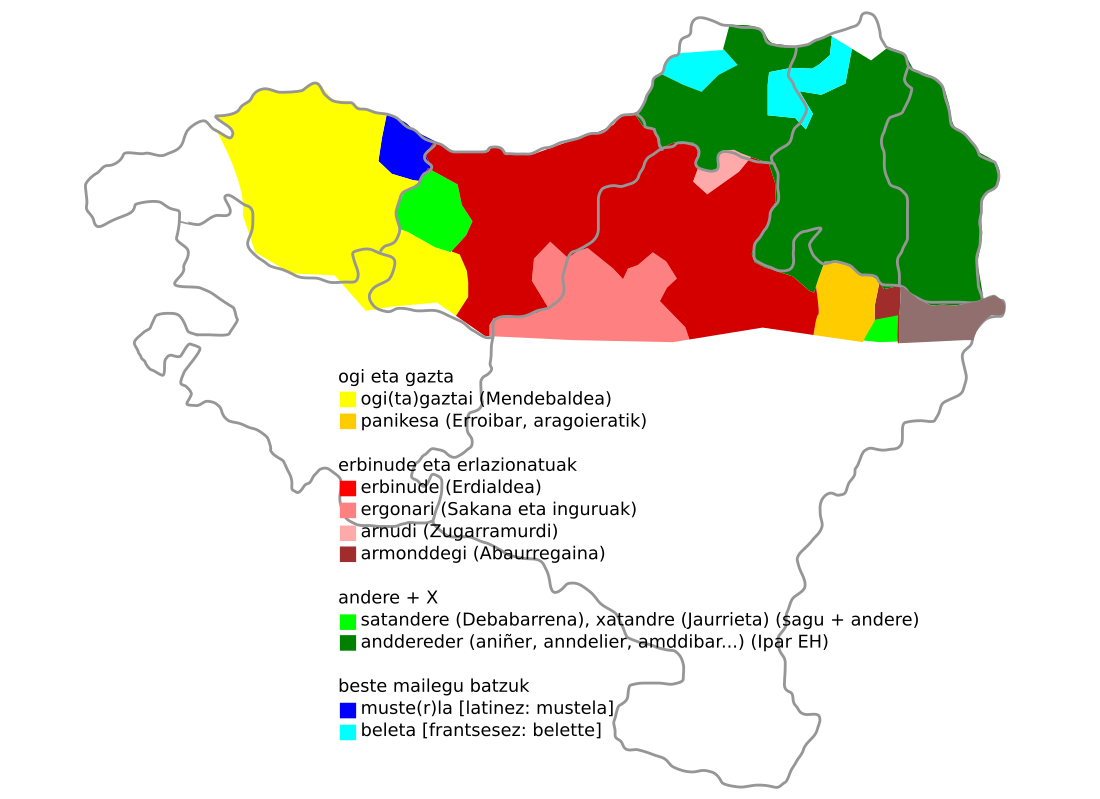 Basque names for the weasel